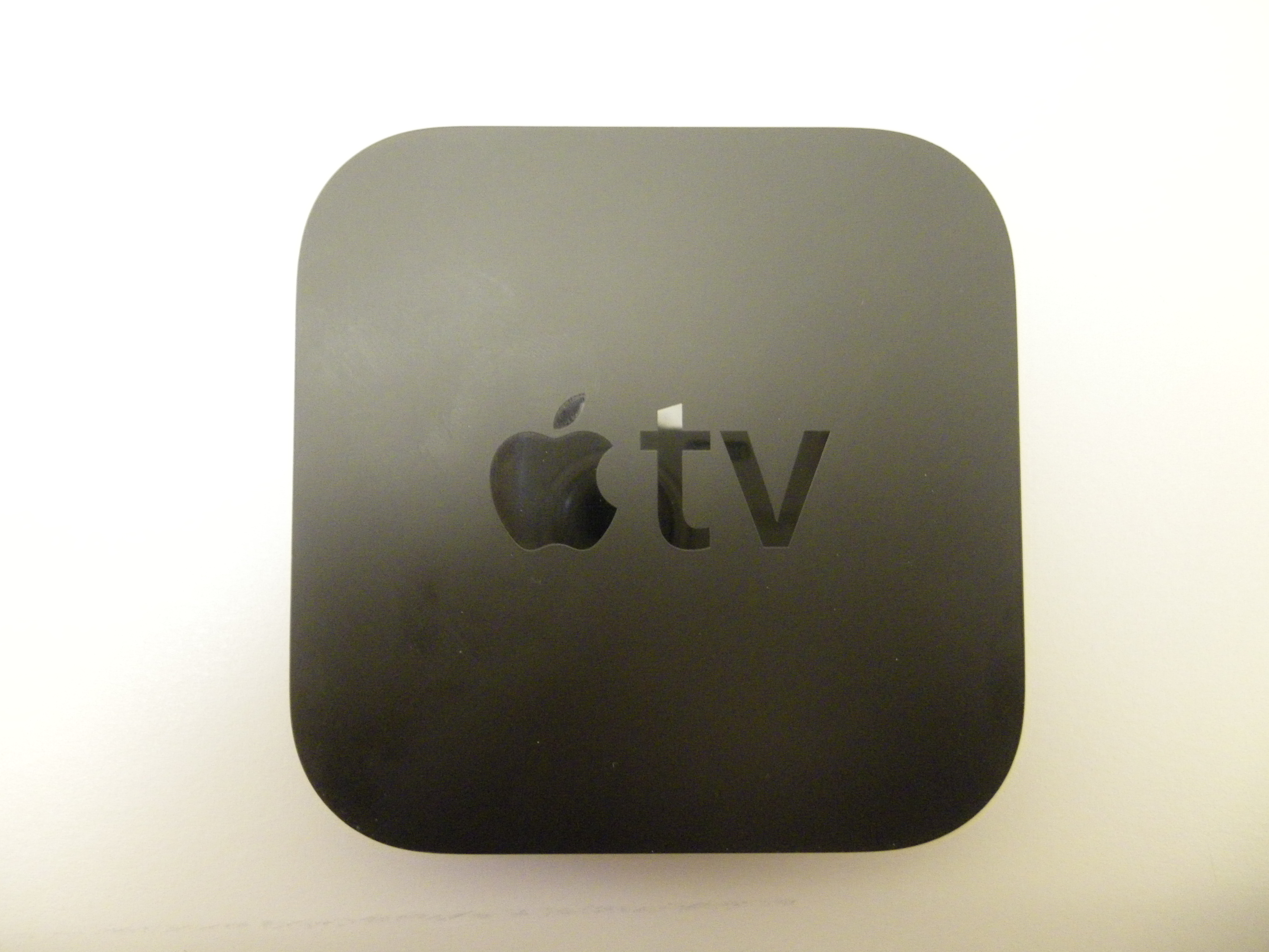 The new, second-generation Apple TV. This is now released, shipping product which is in customers' hands.